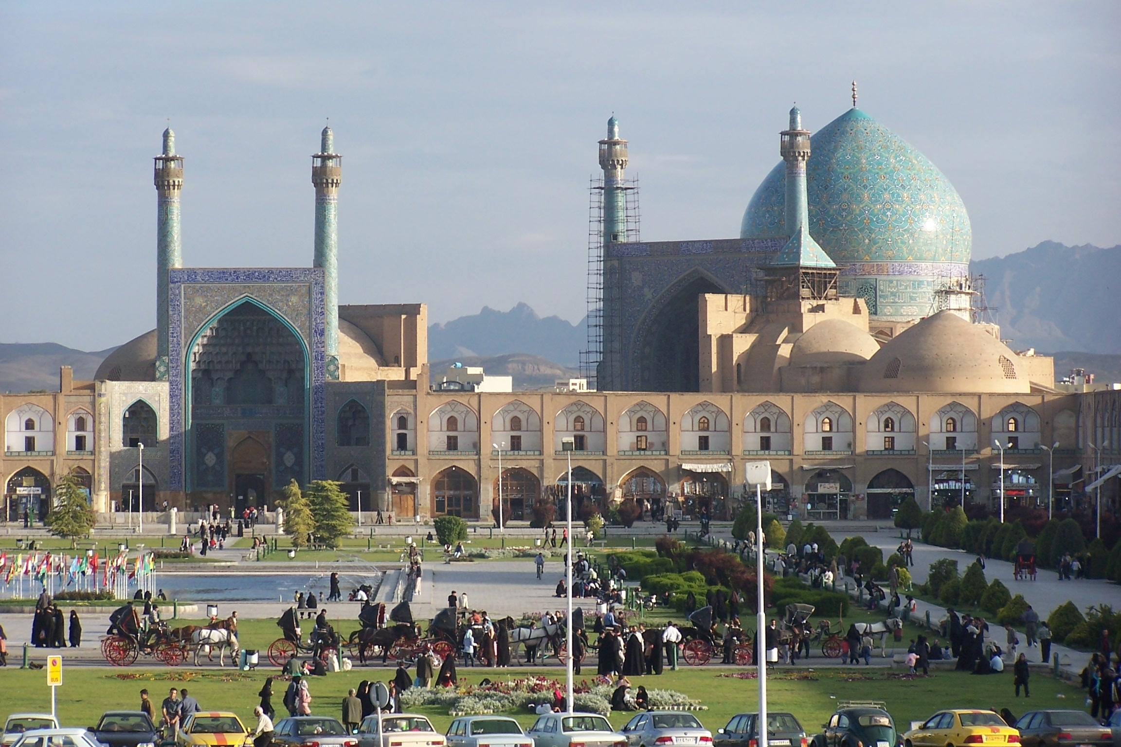 The Shah Mosque or Masjed-e Shah